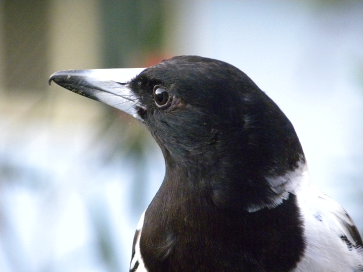 Pied Butcherbird - Male (Cracticus nigrogularis) photographed in Gladstone, Central Queensland, Australia